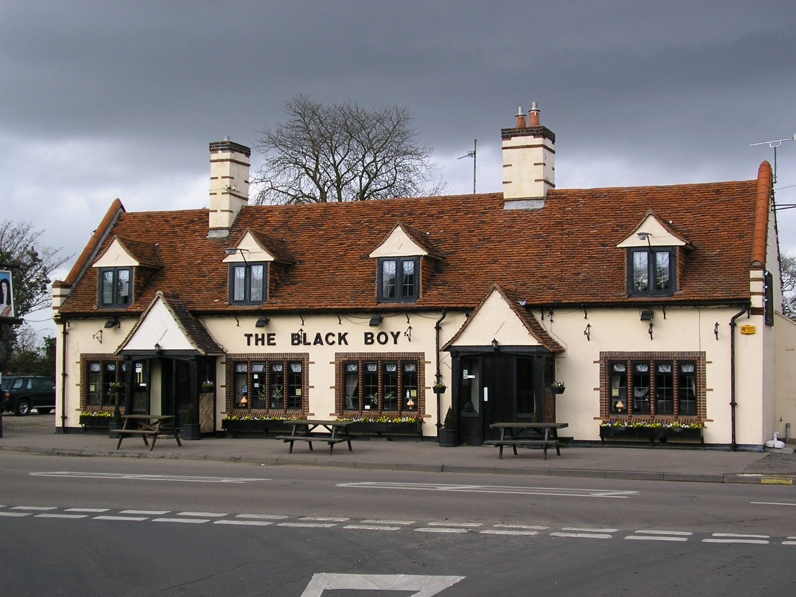 The Black Boy. Thorpe Road, Weeley opposite The Street. This page claims that "any public house called The Black Boy is named after Charles II". Certainly, in this case Charles II appears on the inn sign - just visible at far left.